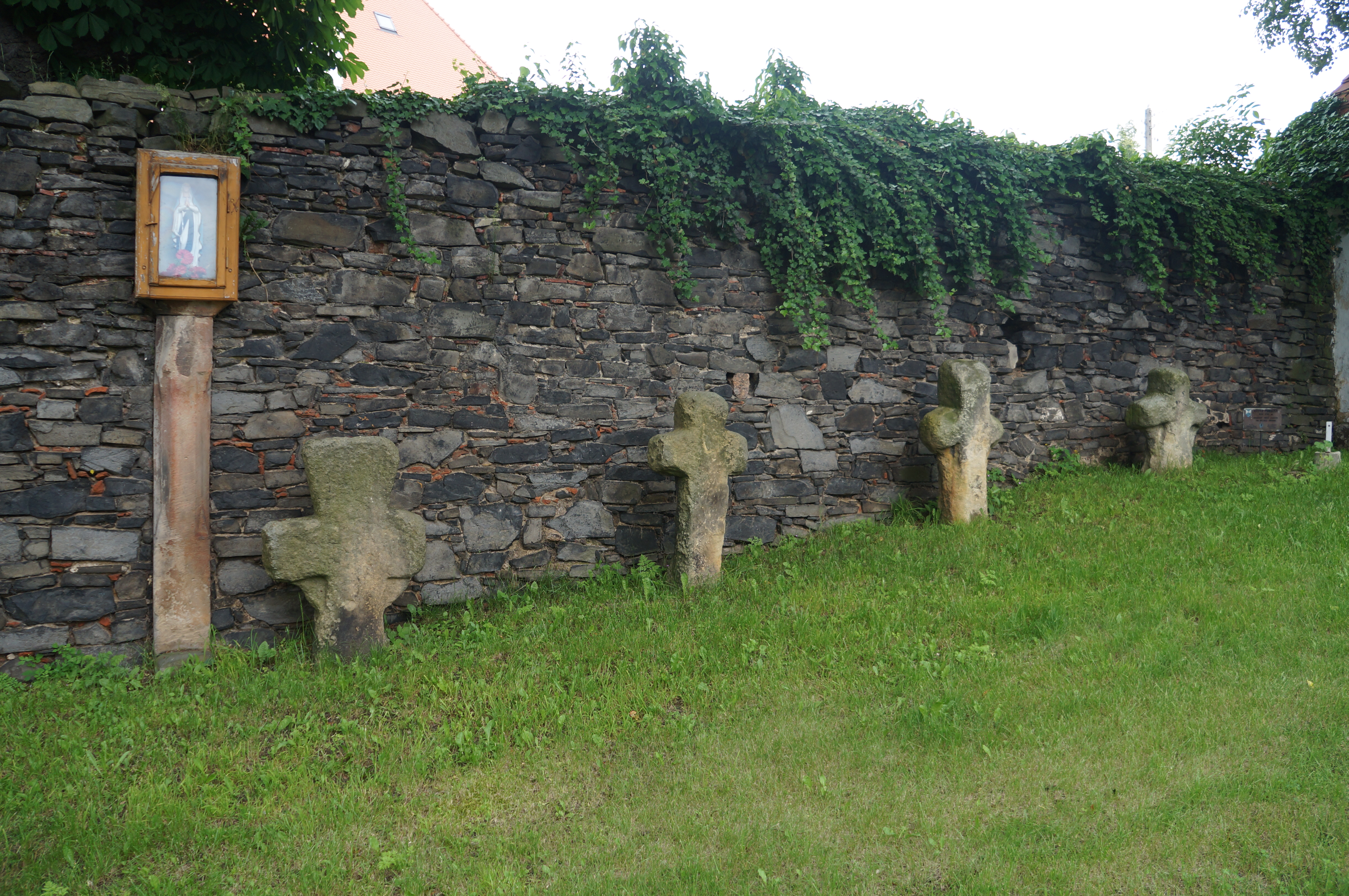 Stone crosses in Słup